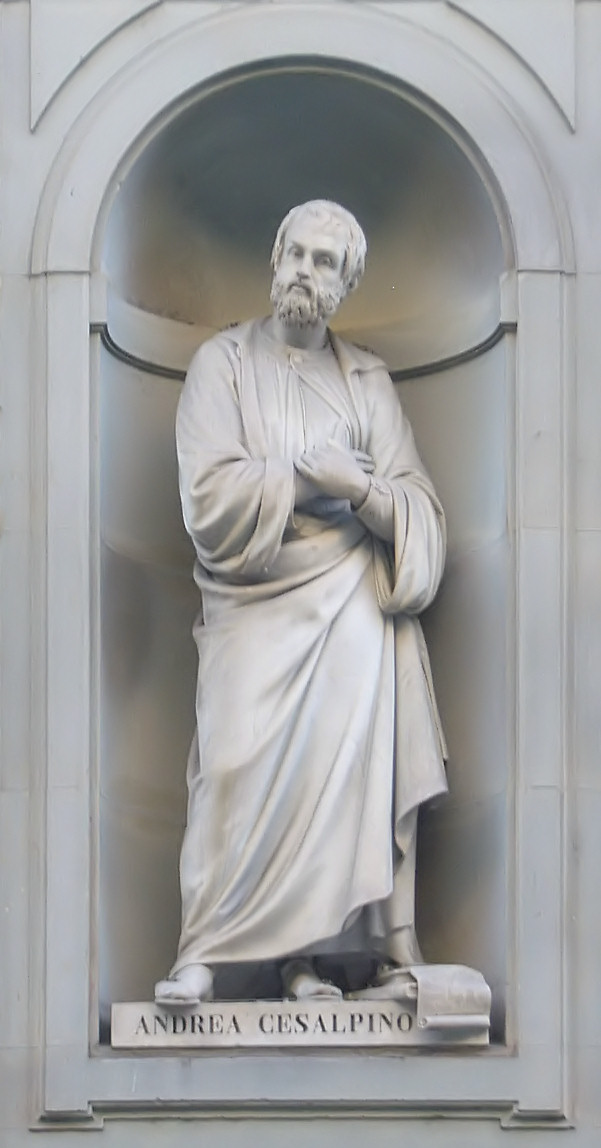 Pio Fedi (1816-1892), statue of Andrea Cesalpino. Statues of famous florentines in the Uffizi outside Gallery.